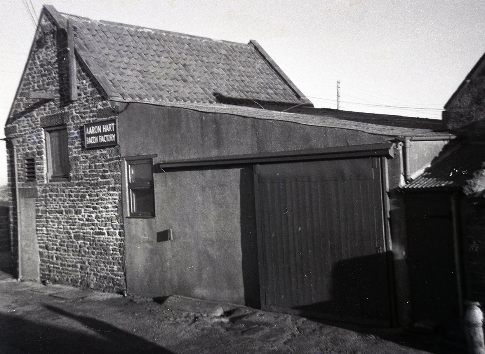 Aaron Hart's Bacon Factory in Ugthorpe, North Yorkshire, England. (1973)